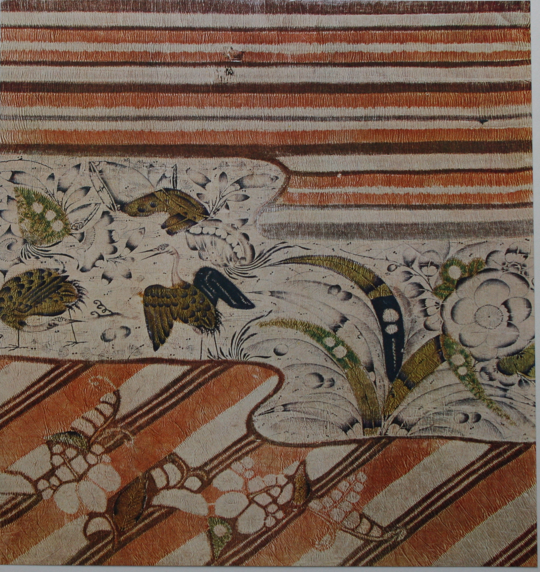 A Fragment of TUJIGAHANA Textile, Silk dyed, 38.8hx36.7cmｗ, 16-17th century, Japan, Fujita Museum, Osaka, Japan